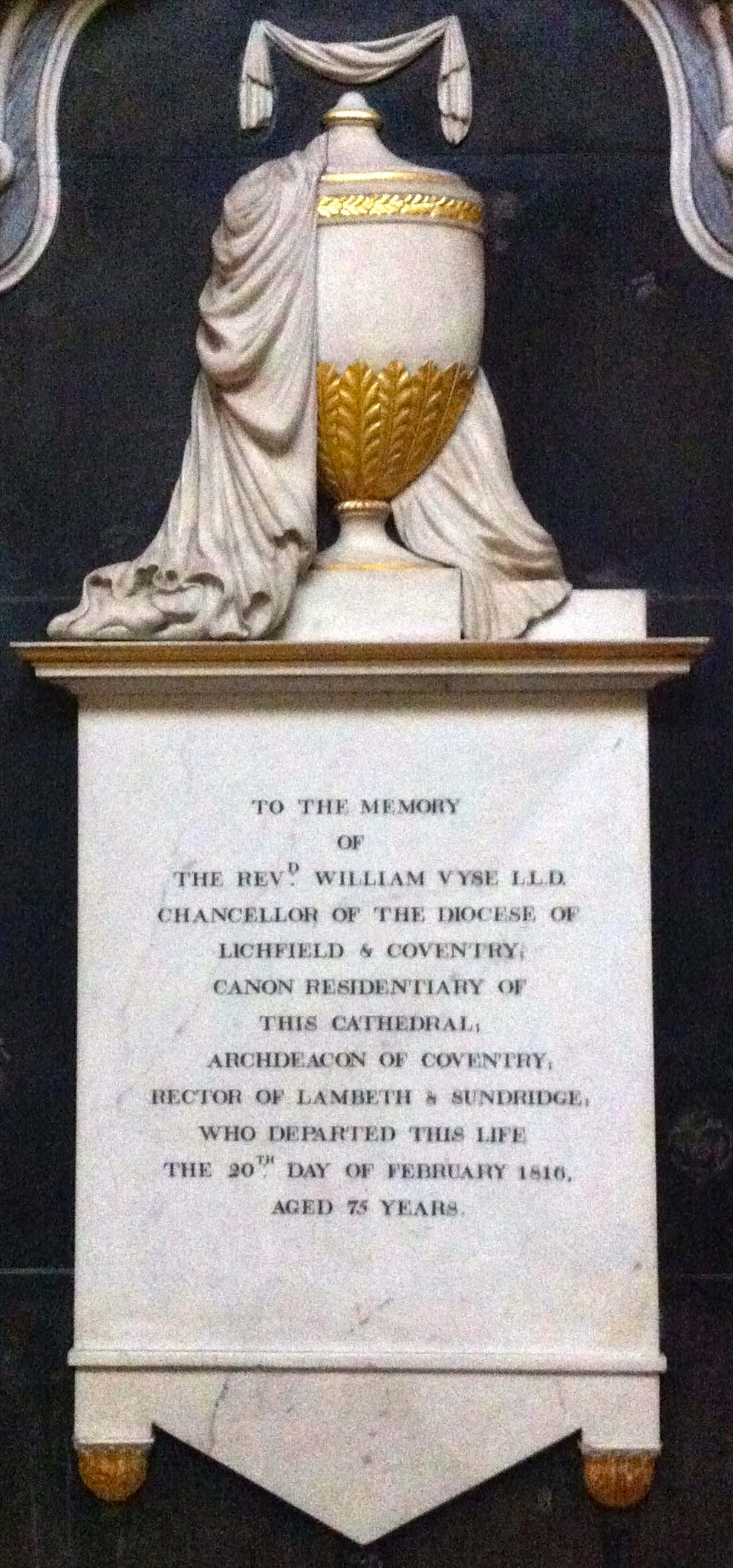 Revd William Vyse L.L.D, Chancellor of the Diocese of Lichfield and Coventry. Canon Residentiary of this Cathedral. Archdeacon of Coventry. Rector of Lambeth and Sundridge. Departed this life 20th day of February 1816, aged 75 years.